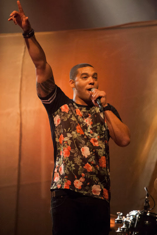 This is a shot from iSH's performance when he opened up for Shawn Desman's Alive Tour at the Virgin Mobile MOD Club in Toronto last November 16th, 2013.